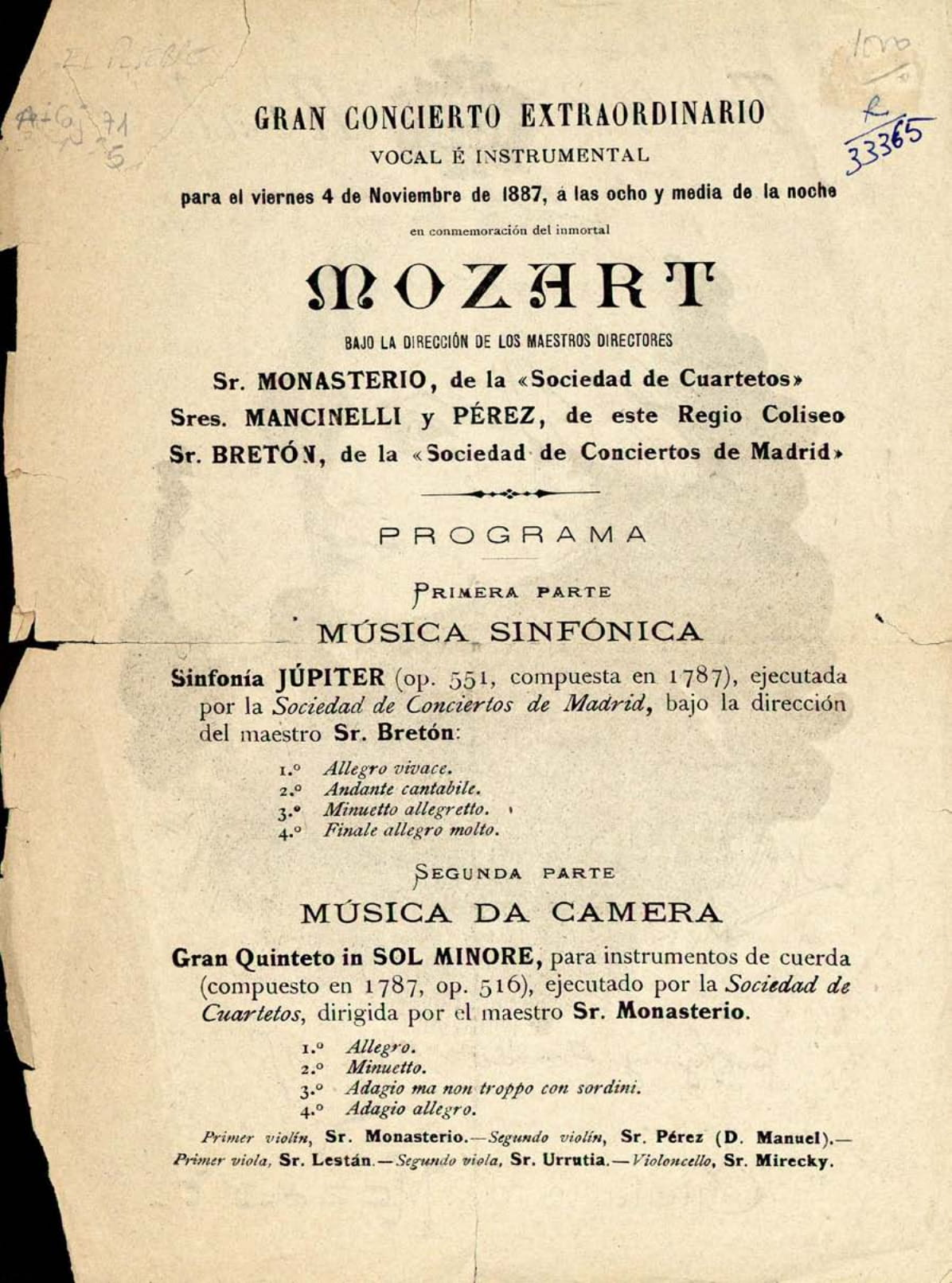 This page was found as part of the online collections of the Biblioteca de la comunidad de madrid.